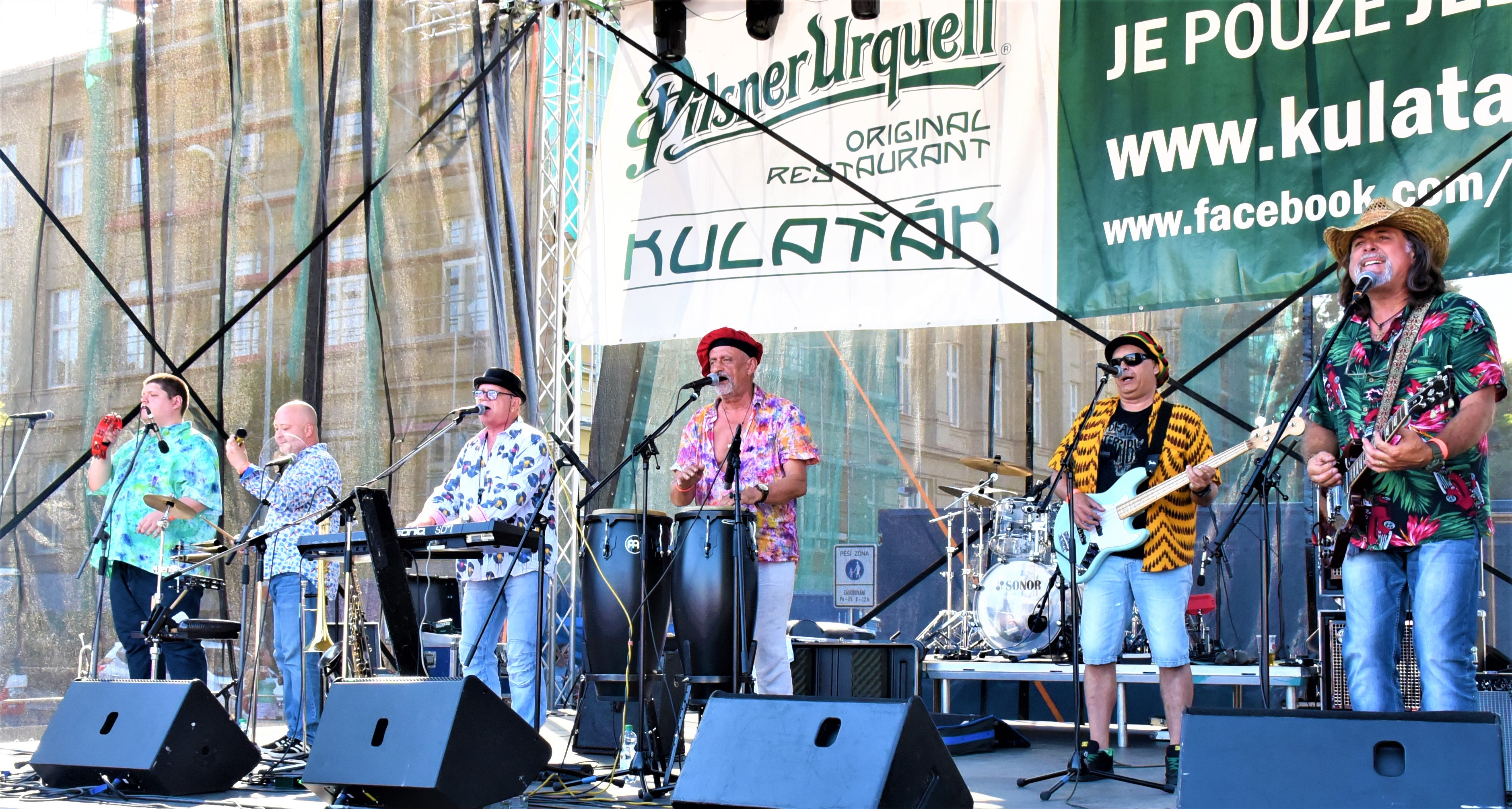 Yo Yo Band, Czech music group